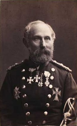 Peter Christian Bianco Boeck (1812-1876), Danish army officer